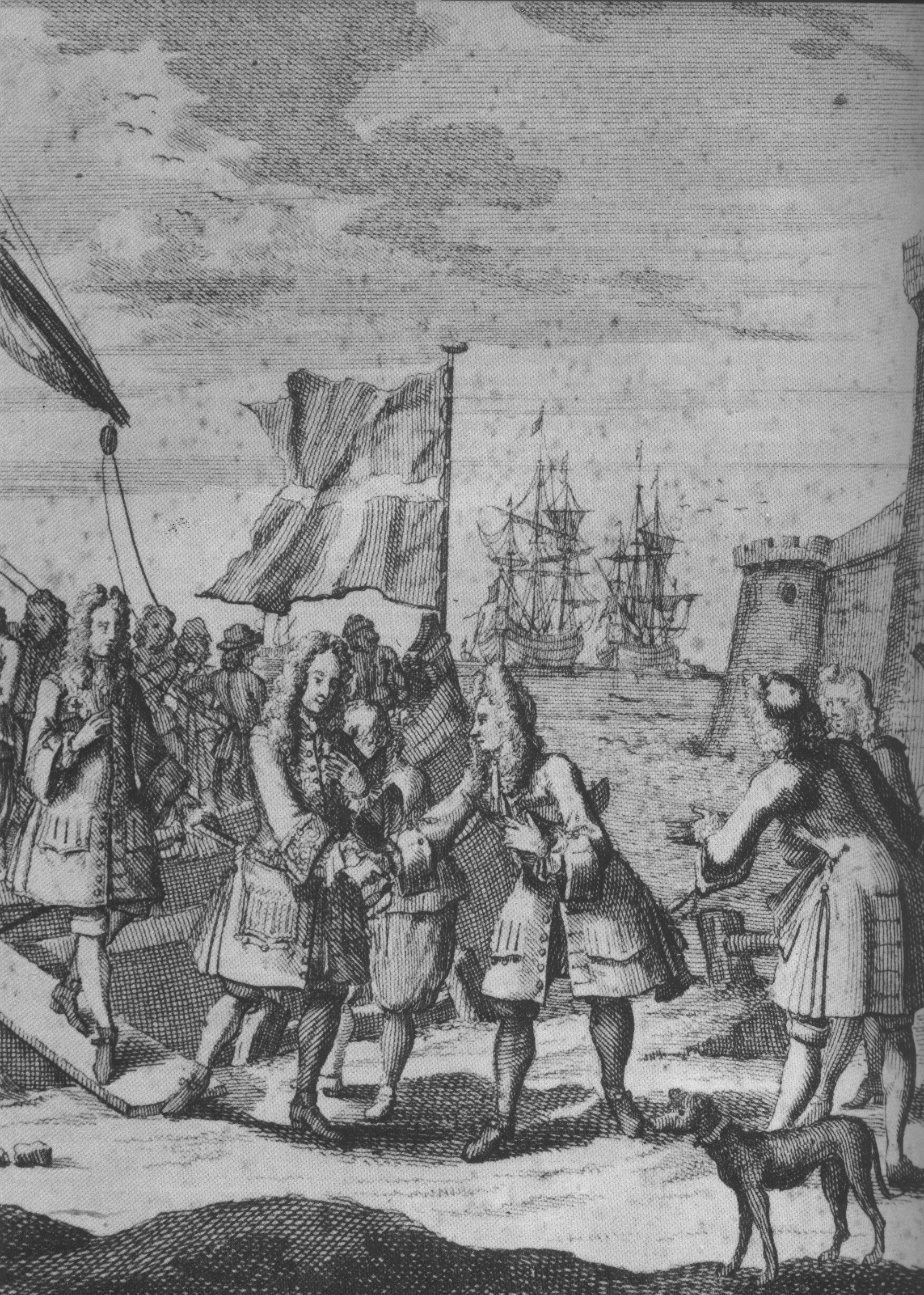 James Stuart, the Old Pretender, sets foot on Scottish soil at Peterhead, 22nd Dec. 1715